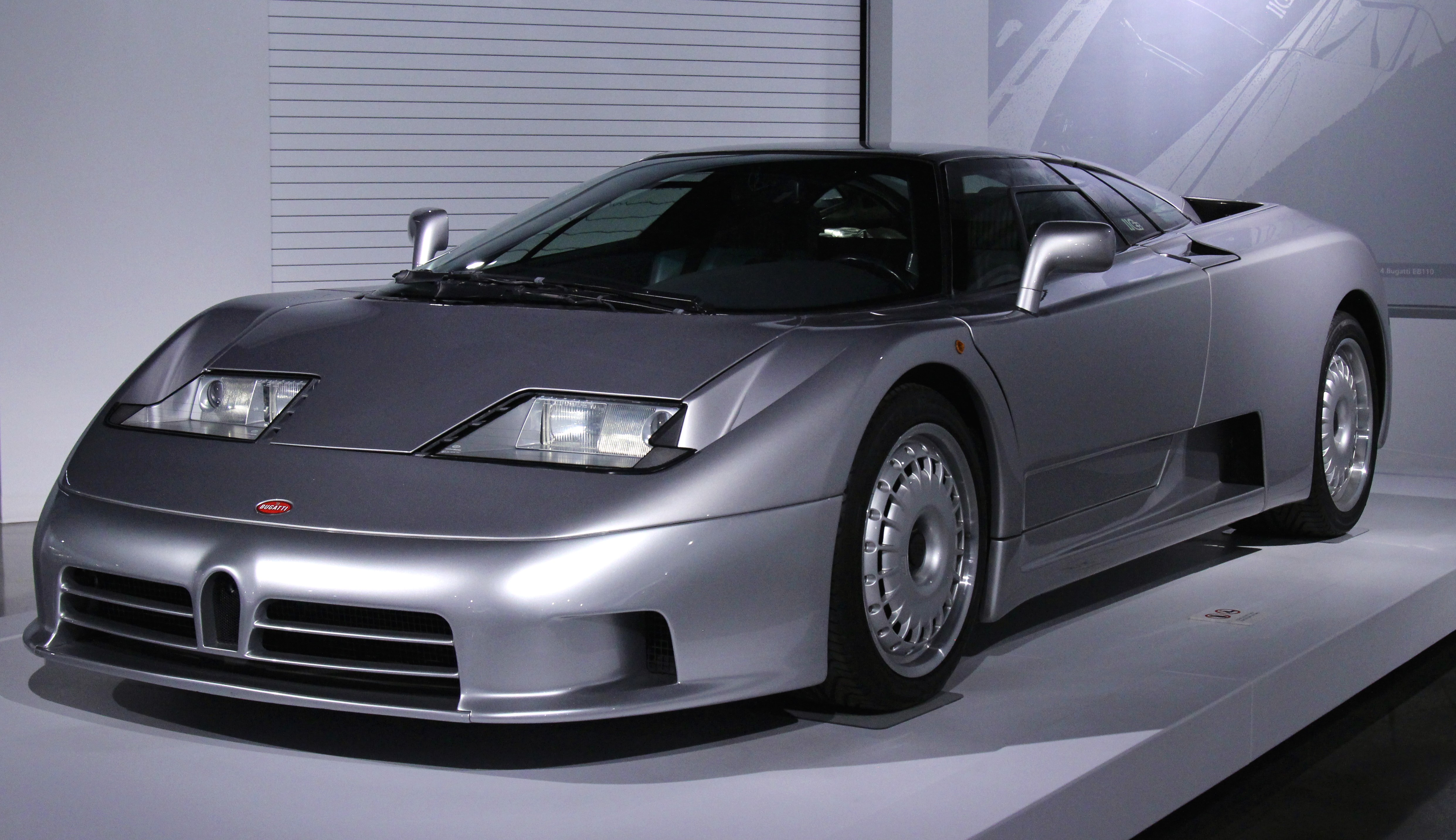 Revival of Bugatti. It's 3.5 liter V-12 engine was fitted with four small turbochargers. Production of the EB-110 coincided with decline in supercar market during the 1990s and just 126 were produced. Petersen Automotive Museum Los Angeles, California